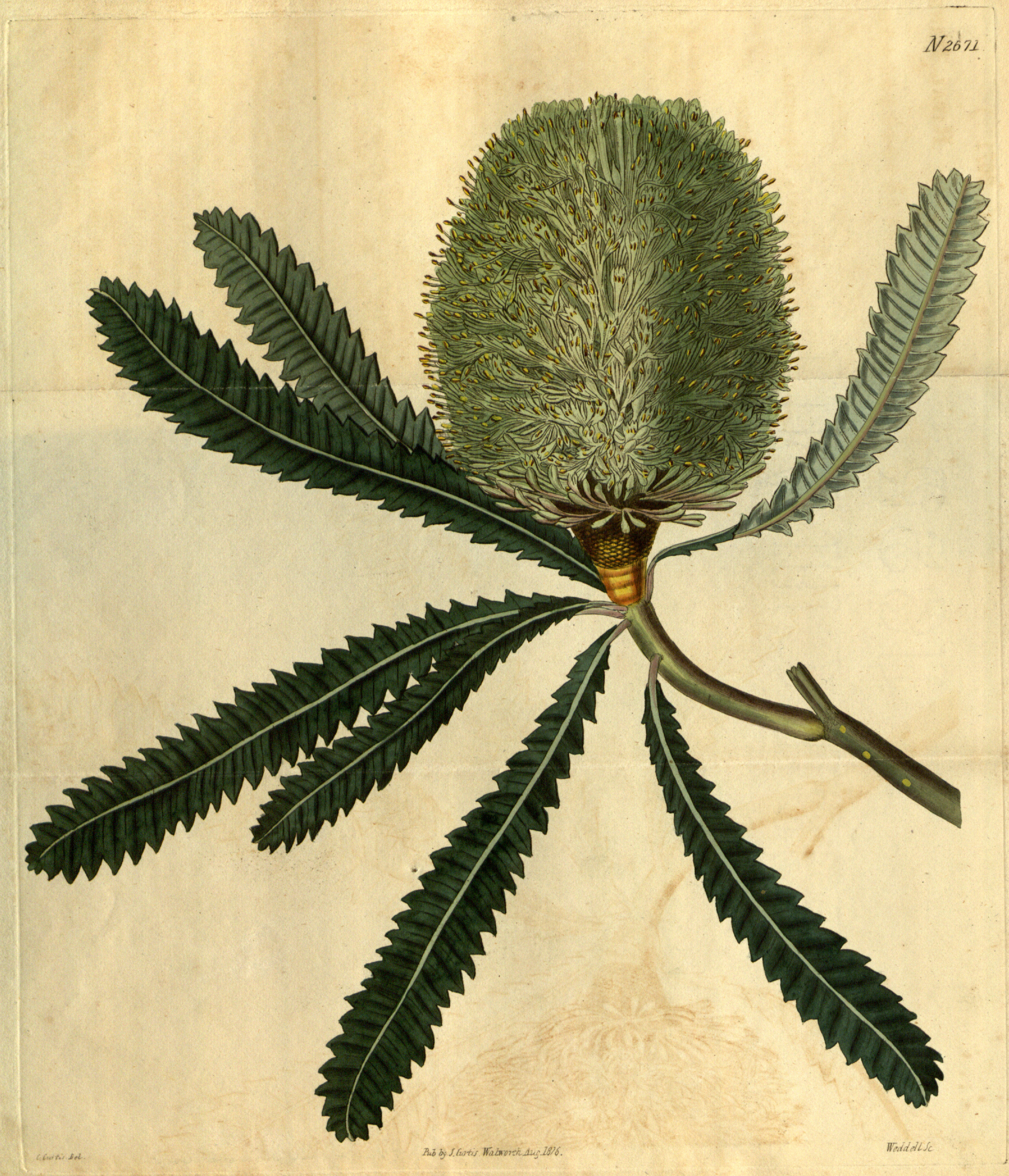 Volume 53 pl. 2671. The title is " Banksia Æmula. Rival Banksia." The image has the signature of Samuel Curtis? and other indeterminate information.